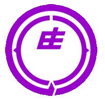 Tounosho Chiba chapter